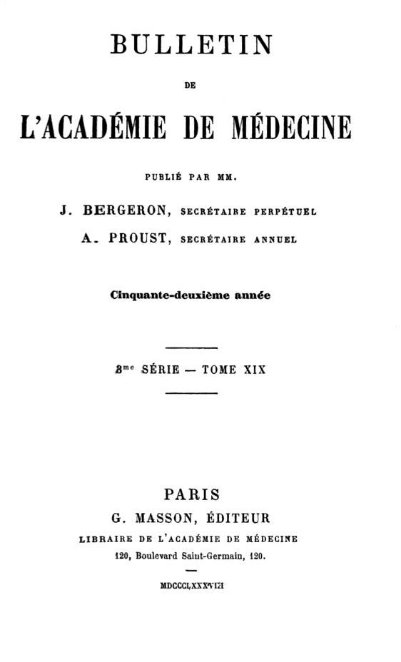 Bulletin of the Academy of Medicine, cover page, 1889